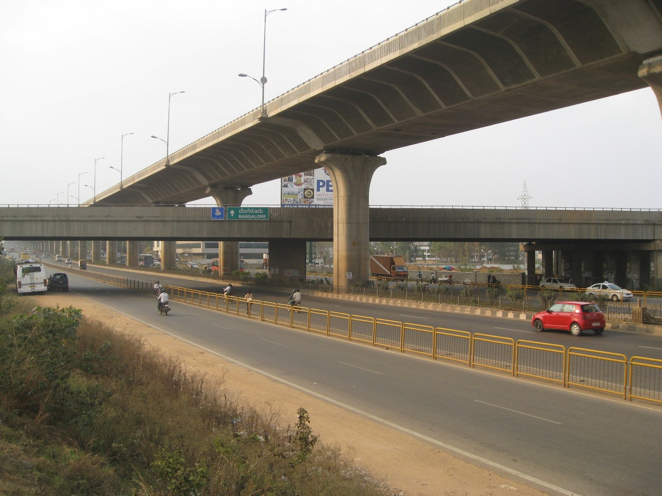 The Junction of the Bangalore Mysore Infrastructure Corridor and Bangalore Elevated Tollway.